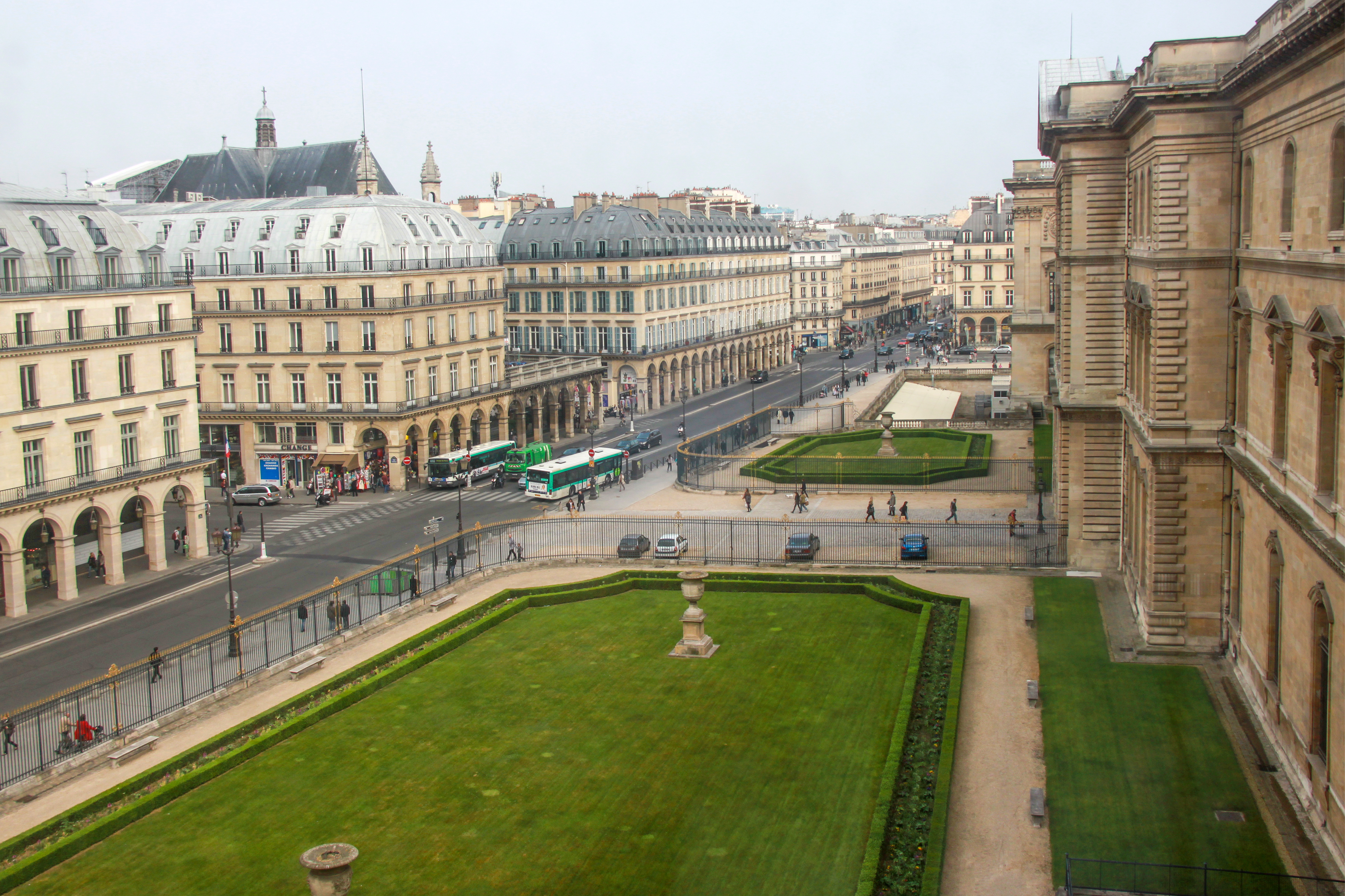 Looking west on the Rue de Rivoli as seen from the Richelieu Wing of the Musée du Louvre, Paris. The north facade of the Sully Wing is on the right.